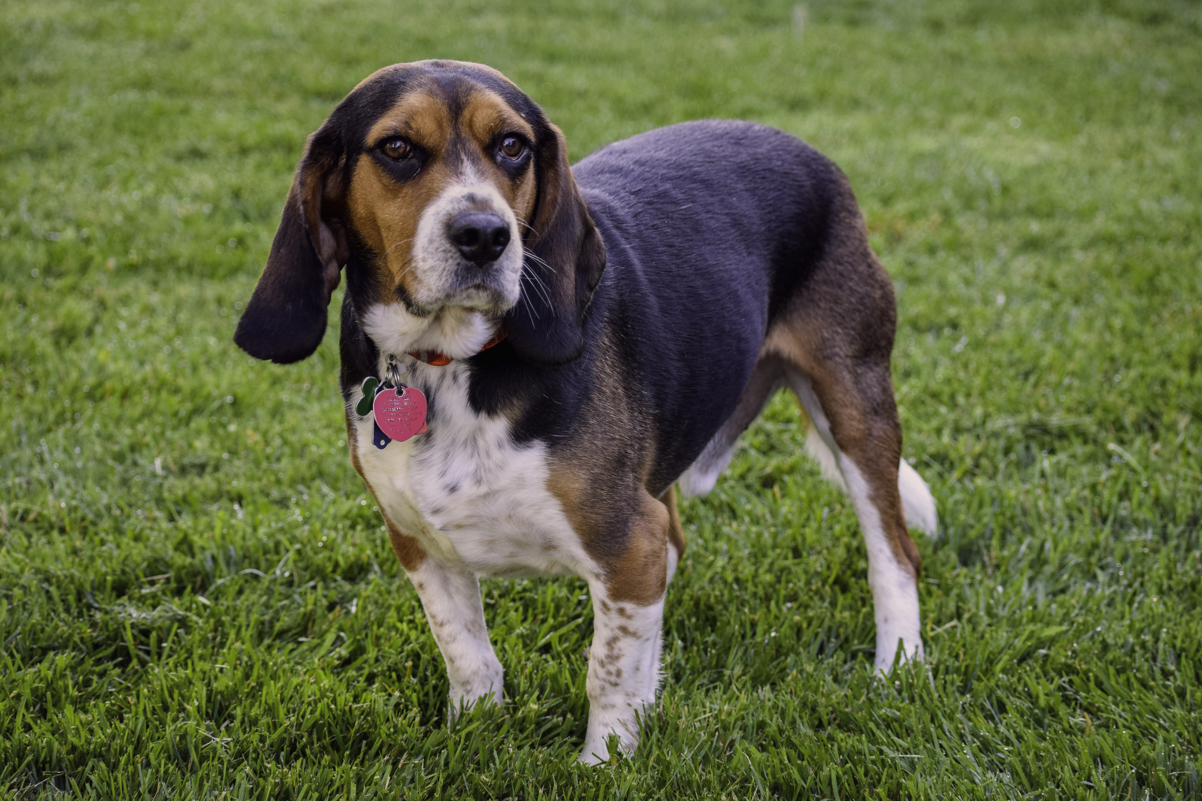 Bronco is a male tricolor Beagle